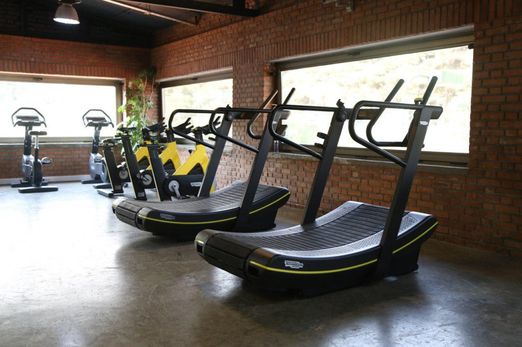 oxygen fitness club located in enghelab complex